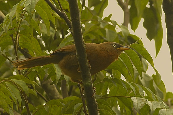 Turdoides subrufa Photograph taken by Yathin S K at Bhadra Wildlife Sanctuary, Karnataka, India